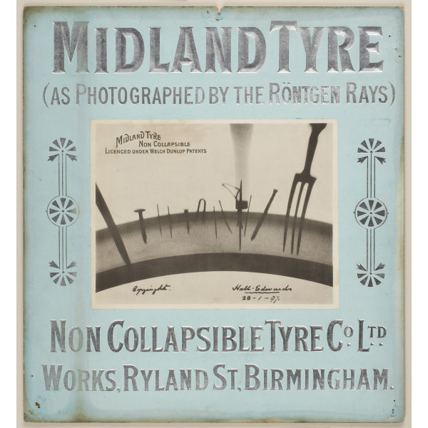 "Midland Tyre (as photographed by the Röntgen Rays)", an advert for the Non-Collapsible Tyre Co. Ltd. of Ryland Street, Birmingham, using an X-ray photograph by John Hall-Edwards. Gelatin silver print on lettered mount. Now in the collection of Princeton University.